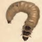 Stainton’s Natural History of the Tineina (1855–1873): Coleophora chalcogrammella